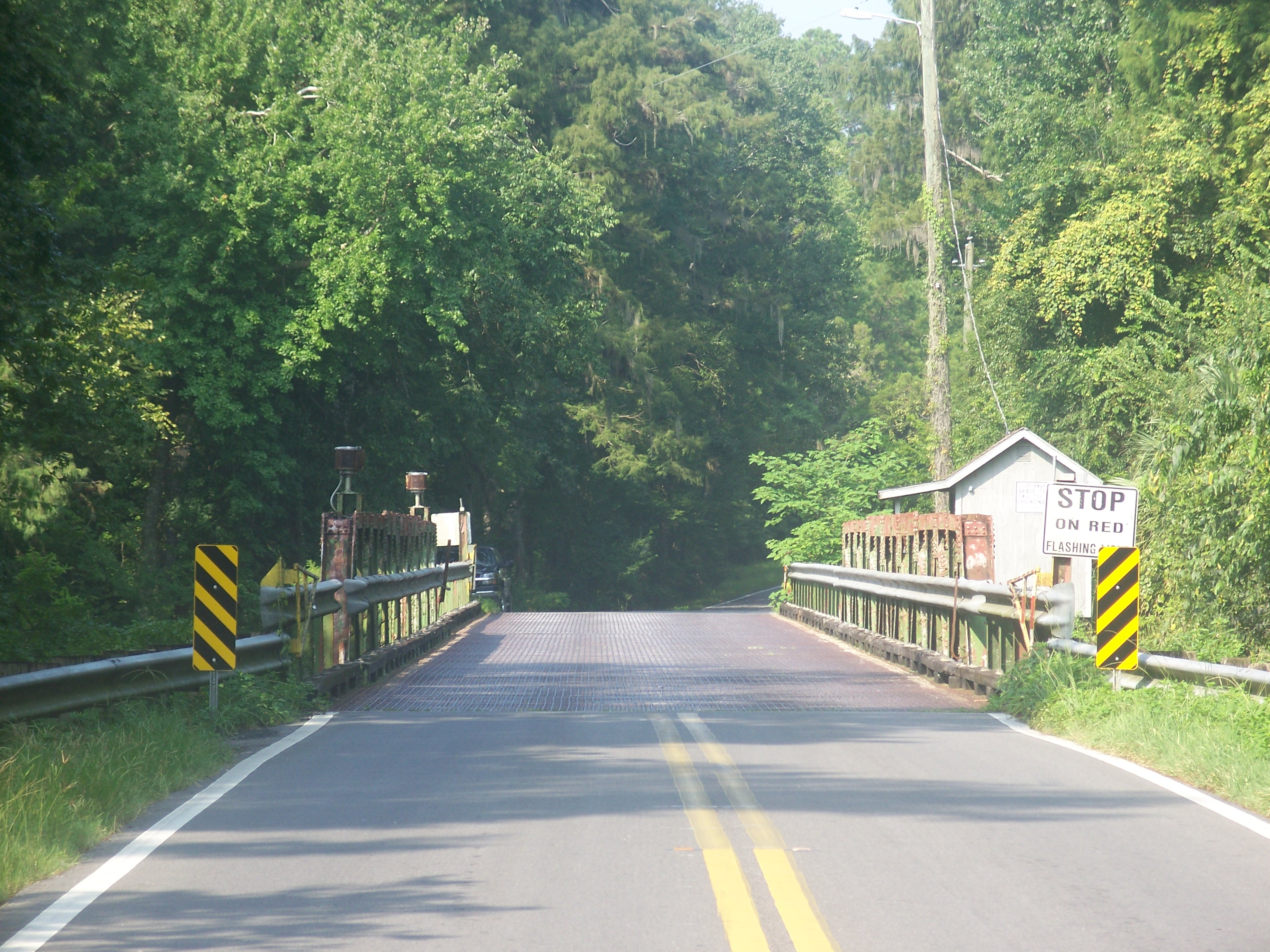 Sharpes Ferry bridge over the Oklawaha River, on CR 314, near Silver Springs, Florida